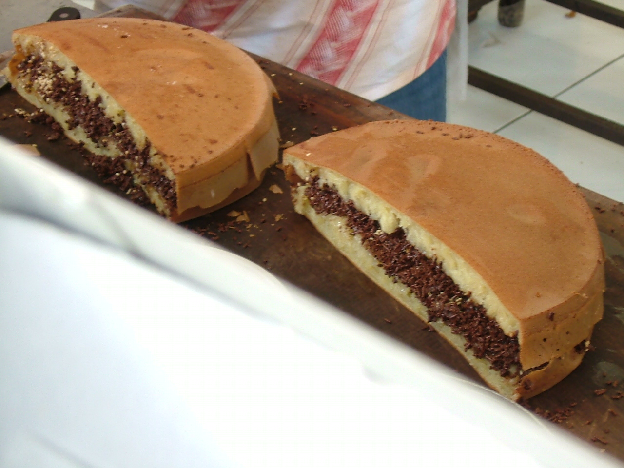 Martabak manis, rich in chocolate, ground peanuts, condensed milk, margarine and butter.